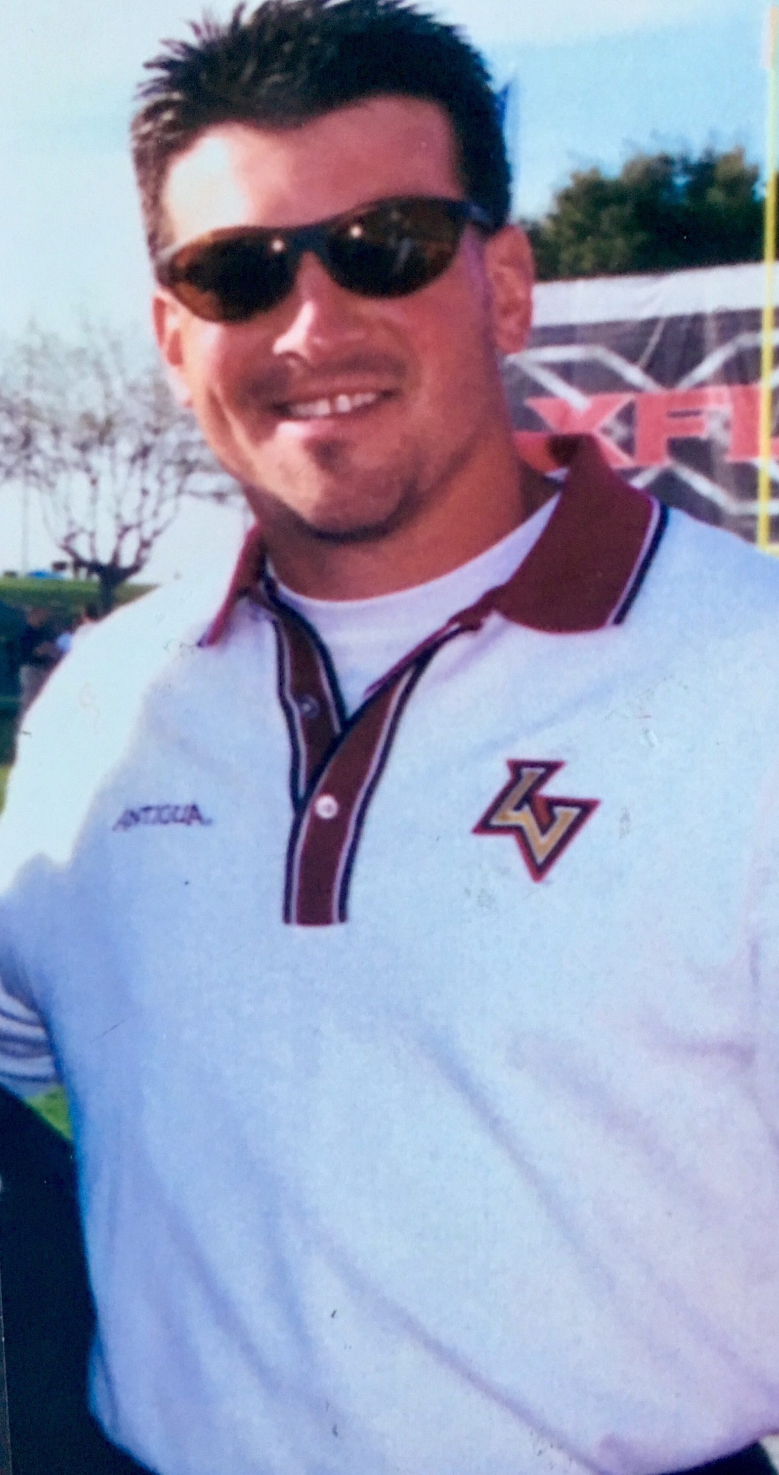 American Football Coach Mark Criner as a member of the XFL's Las Vegas Outlaws coaching staff in 2001.